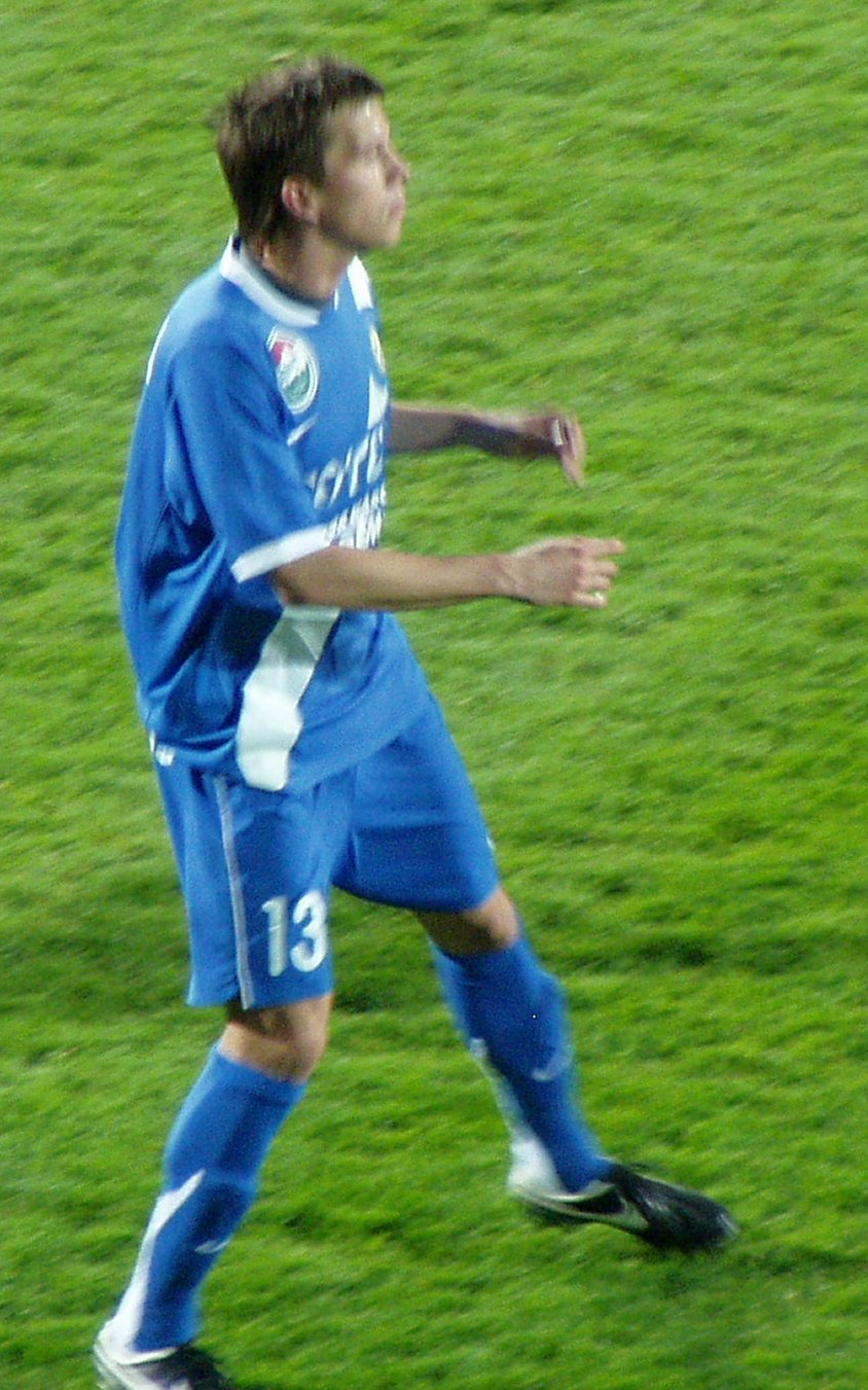 Ádám Hrepka Hungarian football player